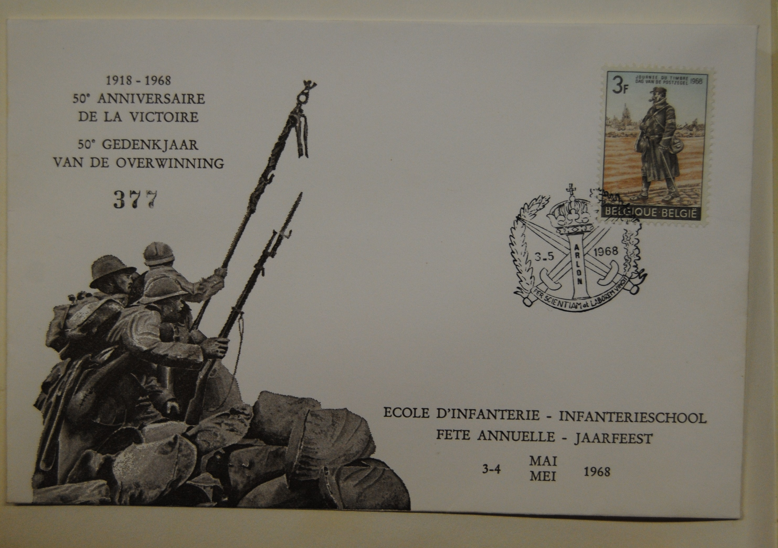 foto taken of letter of 1966 remembering WWI bij Belgium army. Made by Vandekerkhove Gilbert